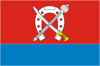 Kavkazskoe (Krasnodar krai), flag